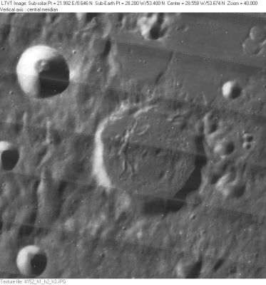 LO-IV-152H Many of the smaller craters in this field are named as satellite features of La Condamine. The largest is 18-km La Condamine D in the upper left.